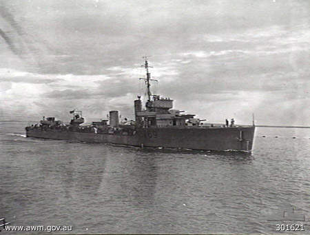 AWM caption : DARWIN, NT. 1943-02. STARBOARD BOW VIEW OF THE DESTROYER HMAS VENDETTA (I) (I69) AFTER REFITTING FOLLOWING HER RETURN TO AUSTRALIA FROM SINGAPORE. X GUN HAS BEEN LANDED. THE 12 POUNDER AA GUN FORMERLY MOUNTED IN PLACE OF THE AFTER TORPEDO TUBES HAS BEEN RESITED ABAFT THE FUNNEL AND ITS PLACE TAKEN BY TWO SINGLE 2 POUNDER AA GUNS. SINGLE 20 MM OERLIKON AA GUNS HAVE BEEN FITTED IN THE BRIDGE WINGS. HER FLAG SUPERIOR IS NOW I RATHER THAN D.